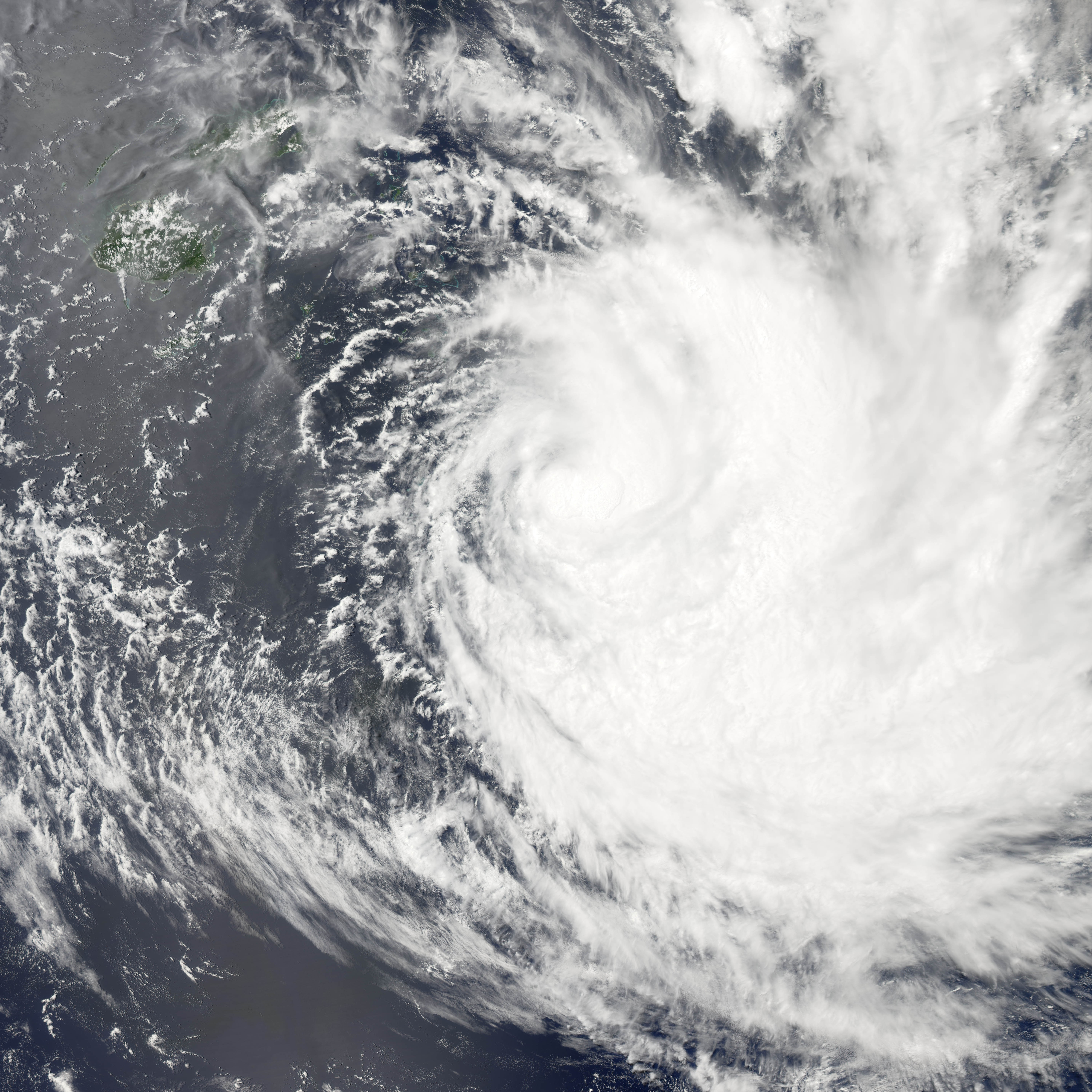 Tropical Cyclone Vaianu was threading its way through the Tonga Islands on February 13, 2006, when the Moderate Resolution Imaging Spectroradiometer (MODIS) on the Aqua satellite captured this image at 1:45 UTC (1:45 p.m. local time). At this time, Vaianu was heading south through the chain of islands, knocking out electricity in many areas, as well as flattening crops such as bananas, mangos, and breadfruit trees. Flooding in low-lying areas shut down the capital, Nuku'alofa, for two days as stores barricaded their doors and windows to protect them from battering winds. The cyclone had peak sustained winds of around 140 kilometers per hour (85 miles per hour), but the storm center where these peak winds were observed was well away from the Tonga and Fiji Islands. The large green island just visible under clouds in the northwestern corner (top left) of this image is Viti Levu, one of two large islands in the Fiji Islands. Vanua Levu is barely visible to the north and east of Viti Levu. The Tonga Islands all lie to the east of Fiji and are covered under the spiralling cloud formation of Cyclone Vaianu.